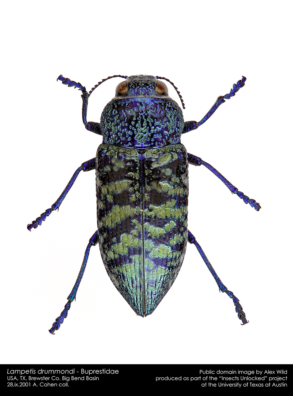 Lampetis drummondi Big Bend Basin, Brewster County Texas USA A. Cohen coll. 28 Sept. 2001 Photographed by Alex Wild for the "Insects Unlocked" project, University of Texas, Austin. This image was created as part of the Insects Unlocked project at the University of Texas at Austin. Based in the UT insect collection at Brackenridge Field Laboratory, part of the Department of Integrative Biology. Do not crop: This image is used on one or more sister projects, where its entire contents are wanted. If you crop it, please save the new image separately, and do not overwrite this